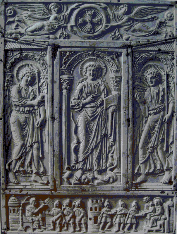 Ivory cover of the Lorsch Gospels, c. 810, Carolingian, Bibliotheca Apostolica Vaticana, 37,7x27,5 cm